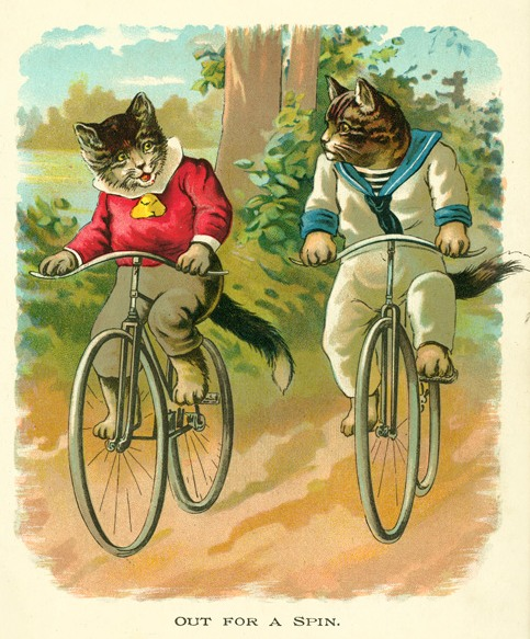 (Removed after reusableart request.)